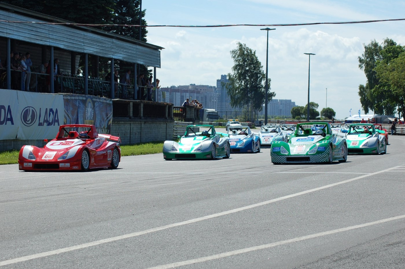 Lada Revolution, Neva Ring, 2006